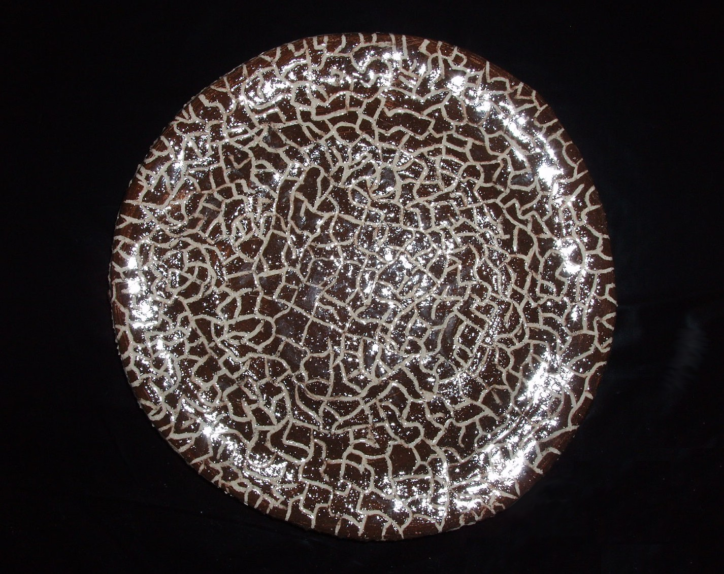 Use of engobe (slipware). Autor Ivo Kruusamägi.